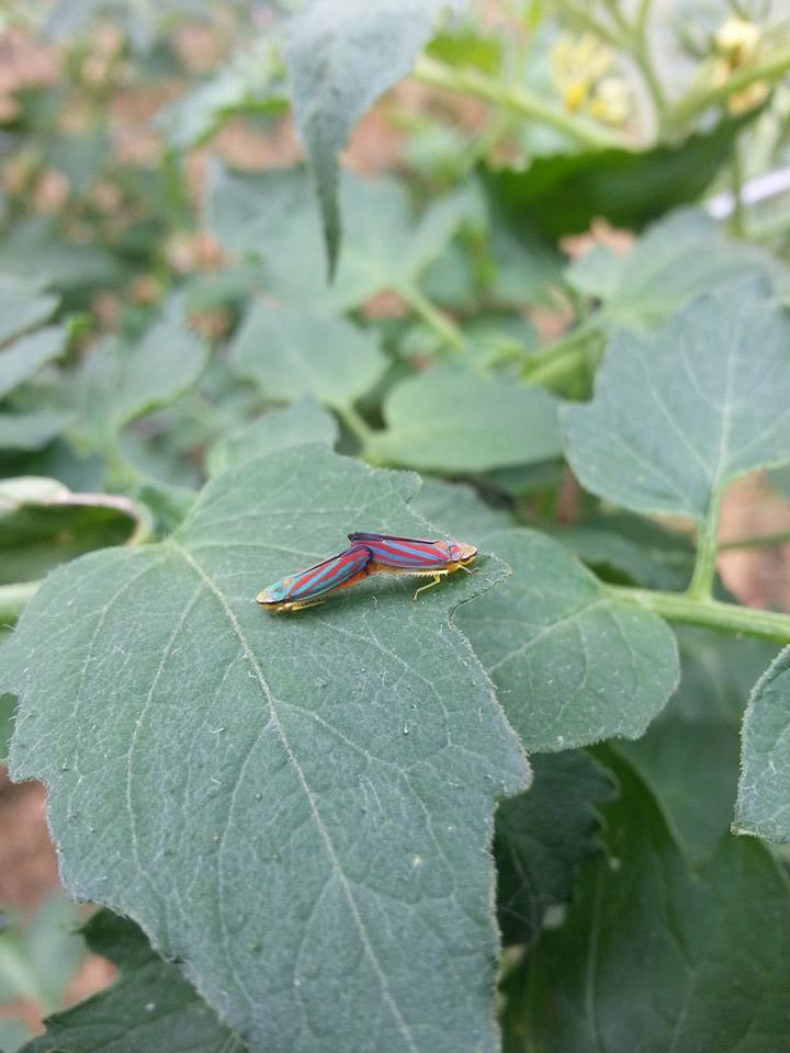 Graphocephala coccinea (candy-striped leafhopper) mating on the leaf of a tomato plant.